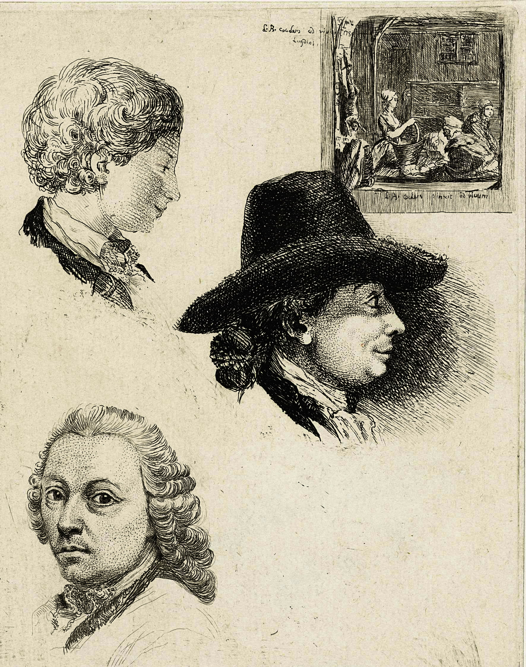 Louis Bernard Coclers, Study of selfportrait (right) and portraits of his son (top left) and father (top bottom). Drawing (1780) in the collection of the Rijksmuseum Amsterdam.